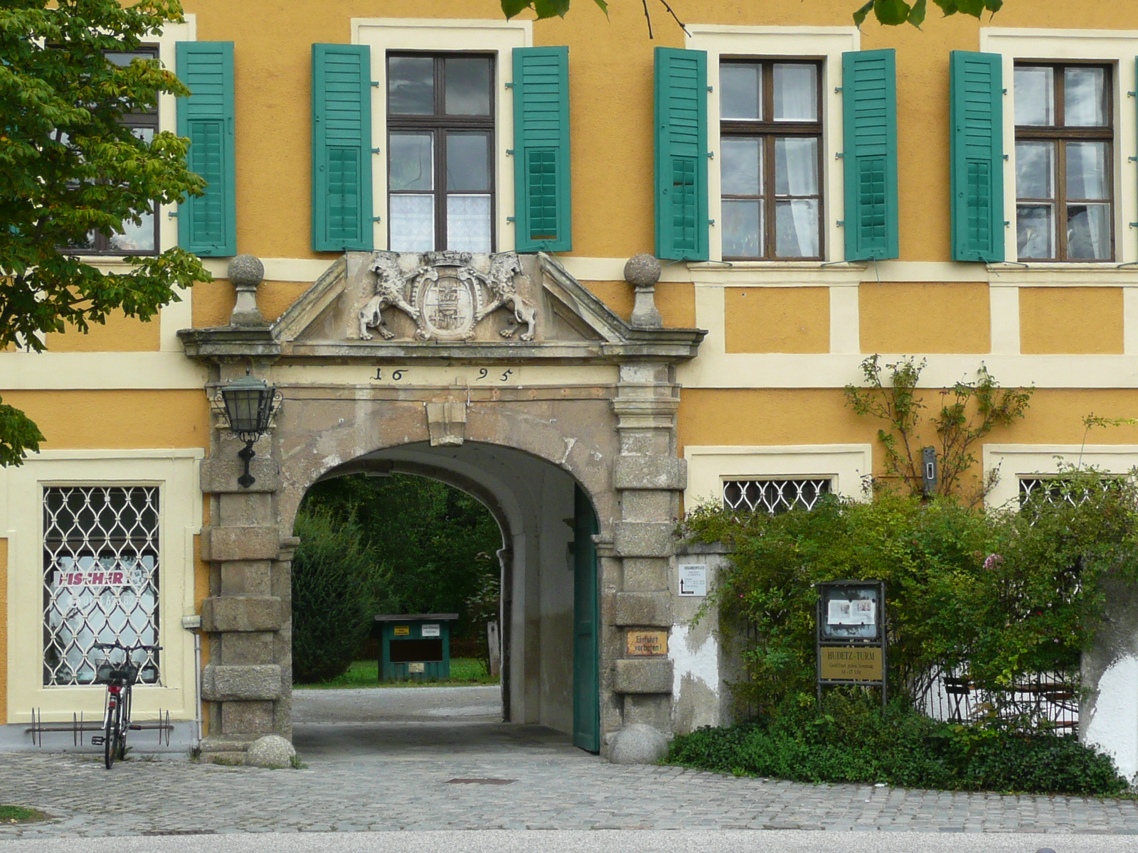 Private Castle gate in Wiesent year 1695